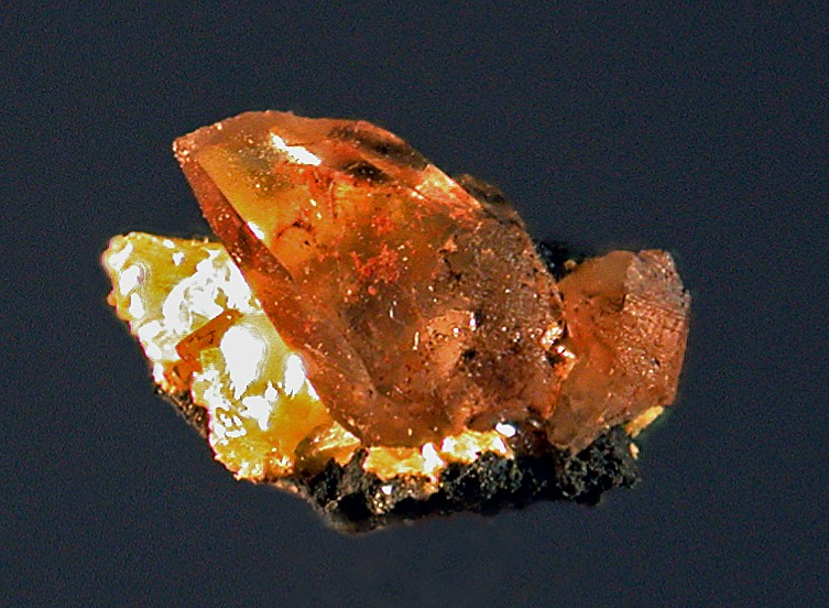 Calomel, Terlinguaite Locality: Perry Pit, Mariposa Mine (California Mountain Mine), Terlingua District, Brewster County, Texas, USA Original description: Amber calomel crystals and bright yellow terlinguaite on gossan matrix, 3 mm. across. Collected c. 1995 by Ray Stegemoller. The terlinguaite is bright yellow and shiny. There is some glare on this image(processed from a stack of 12 images with CombineZ software), but I really don't want to put this photosensitive specimen under the lights and do it again. The calomel crystal is transparent and appears to contain some cinnabar inclusions.